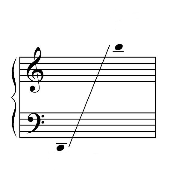 Grand staff notation of the musical range of the gravikord.